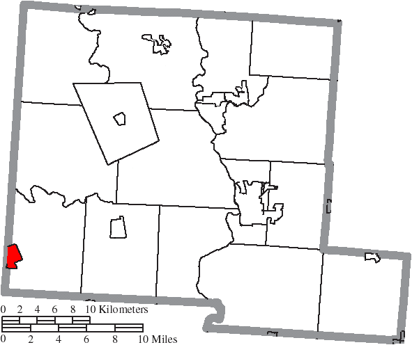 Map of the municipal and township boundaries of Pickaway County, Ohio, United States, as of the 2000 census, with the location of the village of New Holland highlighted. Township borders are shown only in unincorporated areas in order to differentiate incorporated and unincorporated areas more clearly.